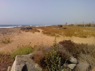 Shoreline in Fuerteventura showing xerophytic vegetation